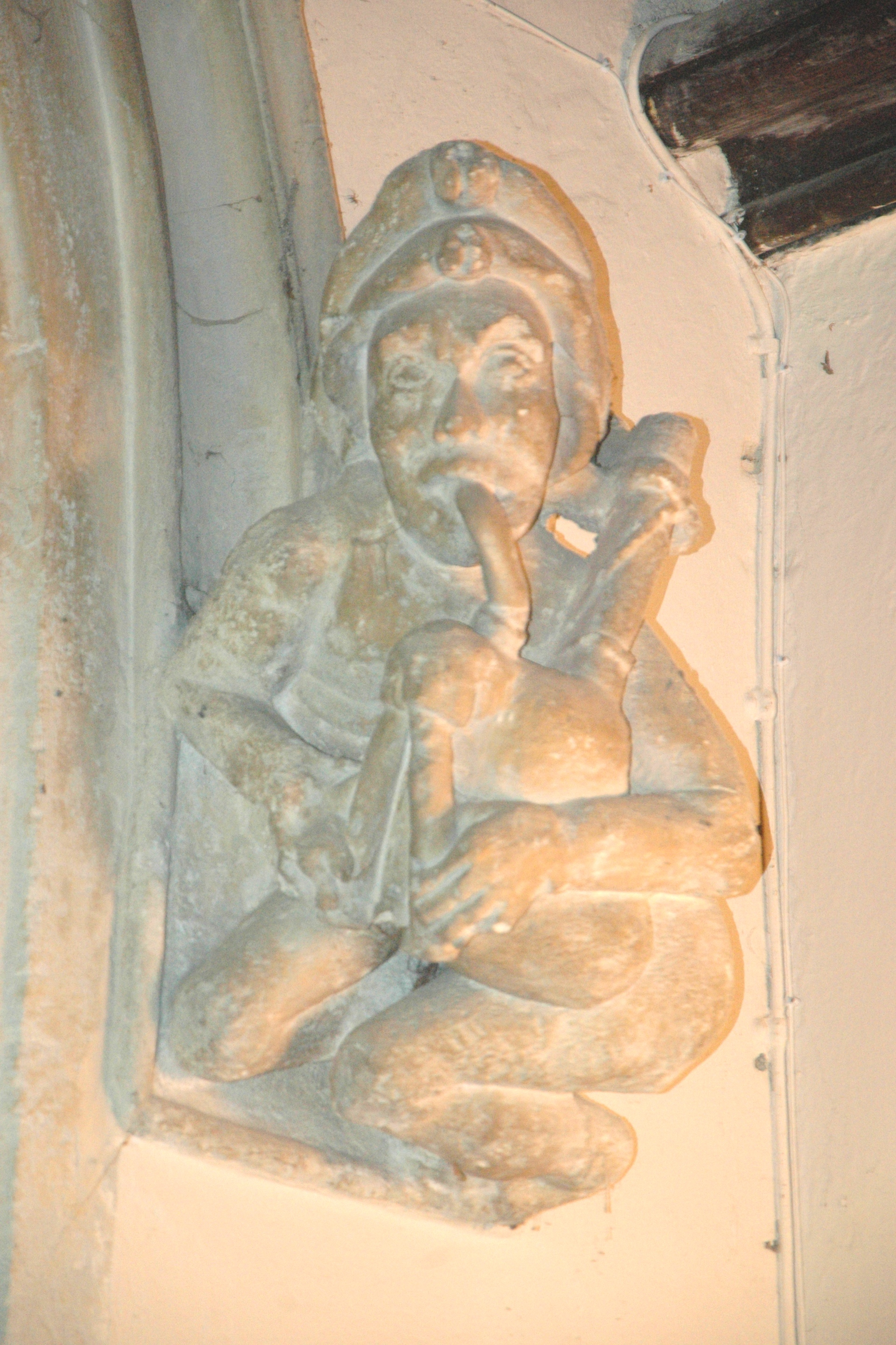 Church of England parish church of St Giles, Horspath, Oxfordshire: 15th century stone figure of a bagpipe player forming right labep stop of tower arch